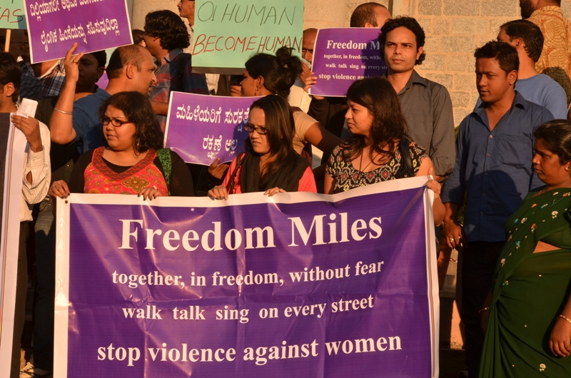 Members of Praja Rajakiya Vedike (PRV), Students Islamic Organisation (SIO), Karnataka Sexual Minorities Forum (KSMF), Eastern Fare Music Foundation (EFMF) and different other organisations of Bangalore protesting outside Bangalore Town Hall on Sunday, December 30 demanding justice for the 23-year-old student who died on 29 December. (Photo - Jim Ankan)